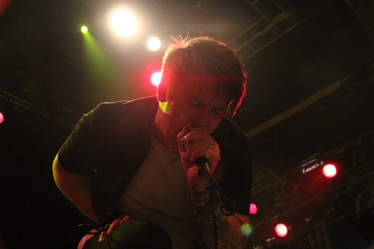 American band Beartooth singer Caleb Shomo live a t House of Blues Sunset, 2015